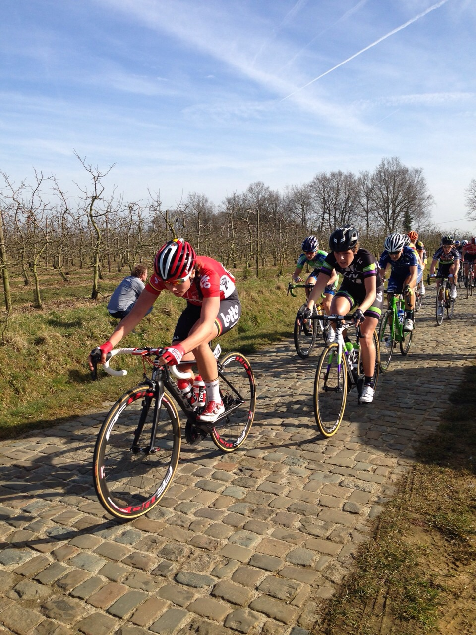 2015 Omloop van het Hageland Floortje Mackaij (right)